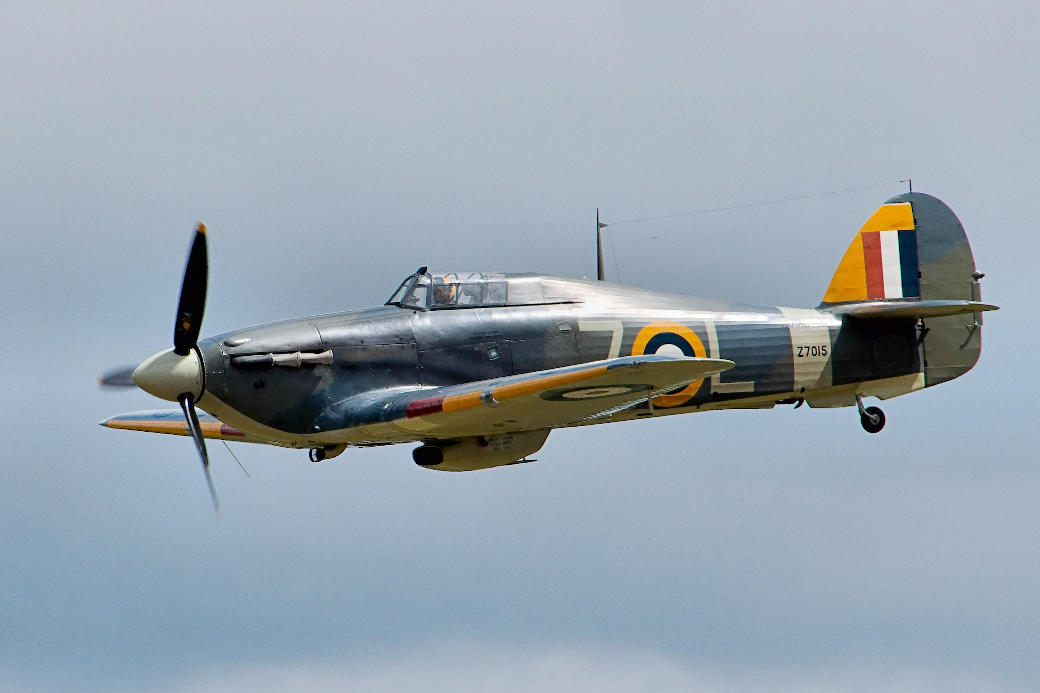 Sea Hurricane - Fly Navy 2017